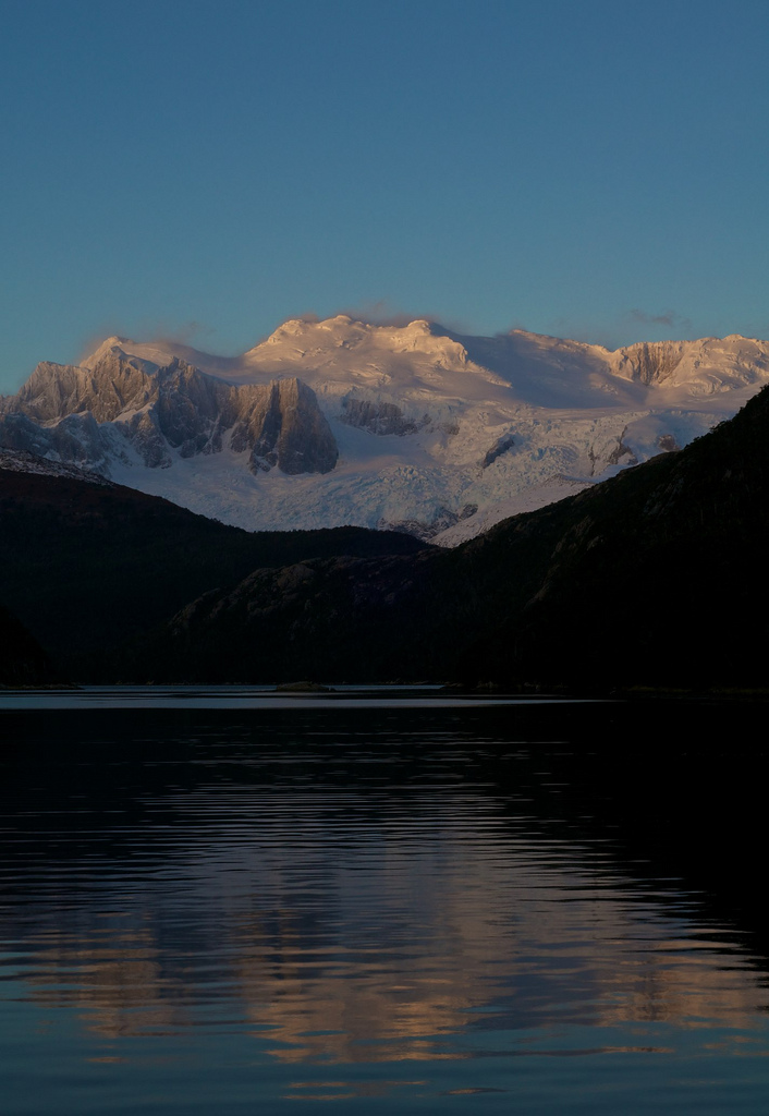 Monte Darwin in the distance.